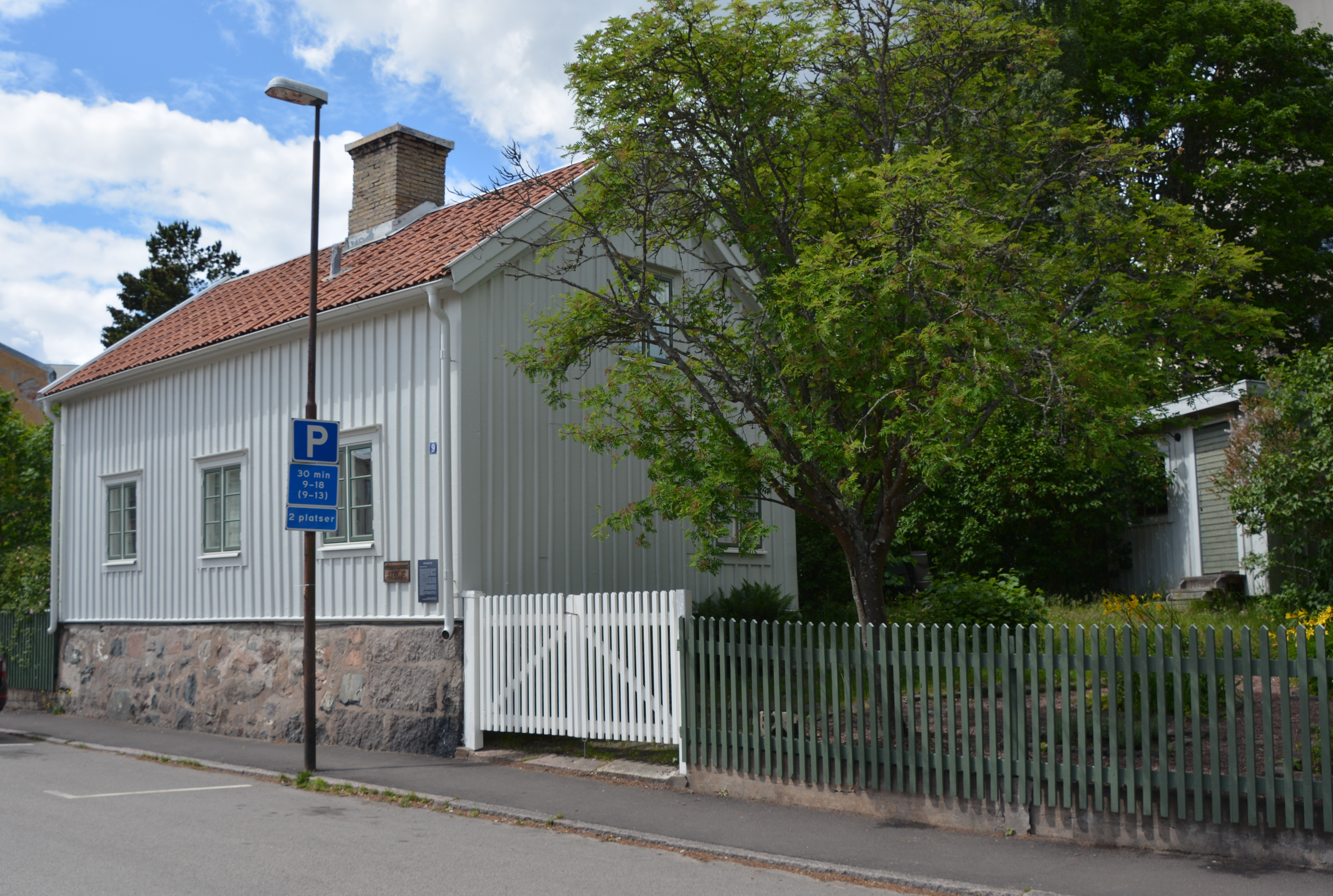 Döderhultarns hus, Oskarshamn